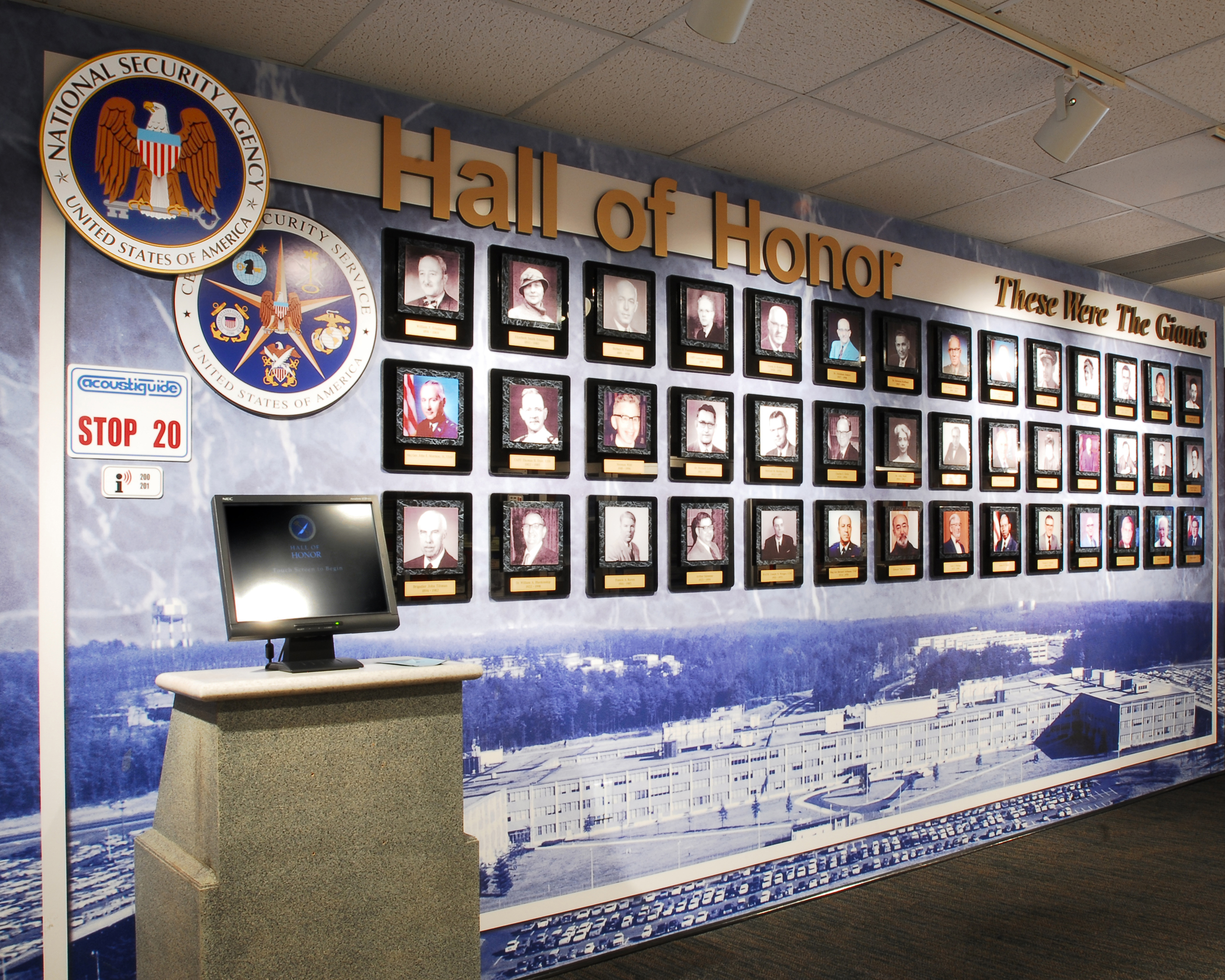 Picture of the pictures on the NSA Hall of Honor wall.